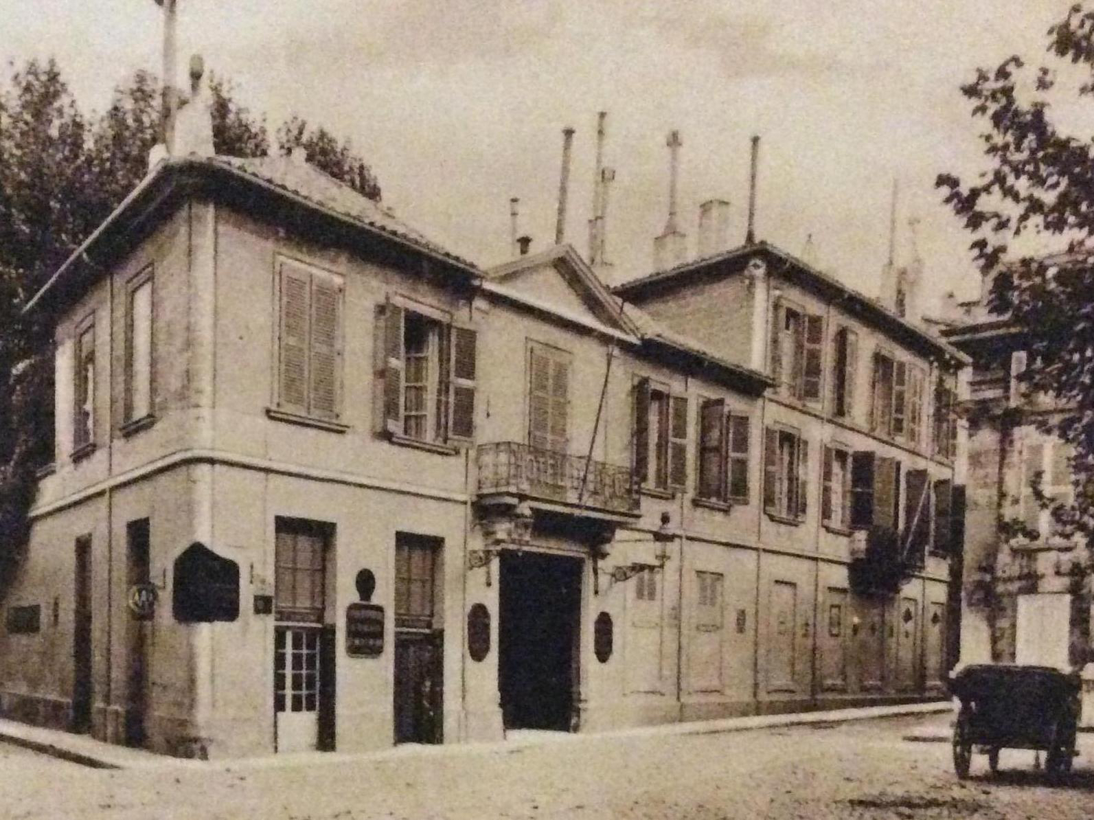 Hotel d'Europe main facade in the XIXth Century